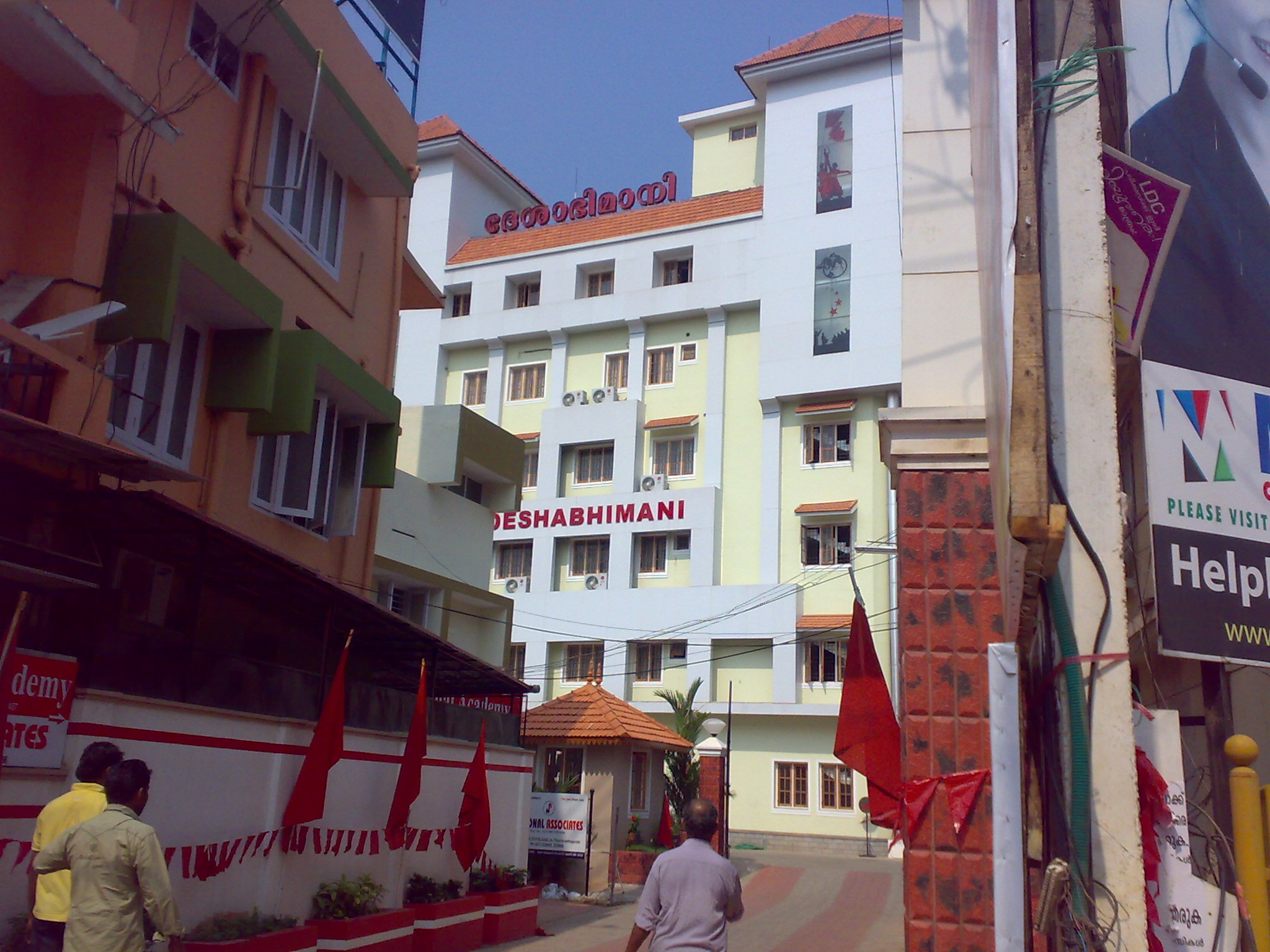 Deshabhimani newspaper office in Trivandrum city, Kerala, India.